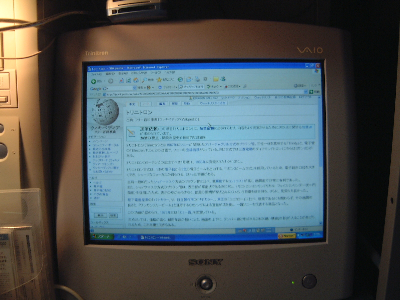 Sony Trinitron映像管顯示器